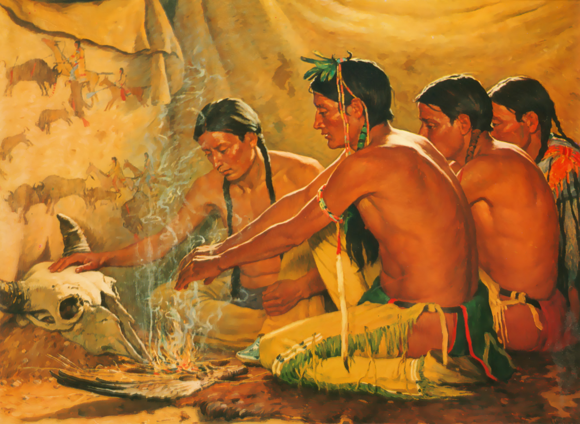 Prayer to the spirit of the buffalo, Blackfoot Ceremony